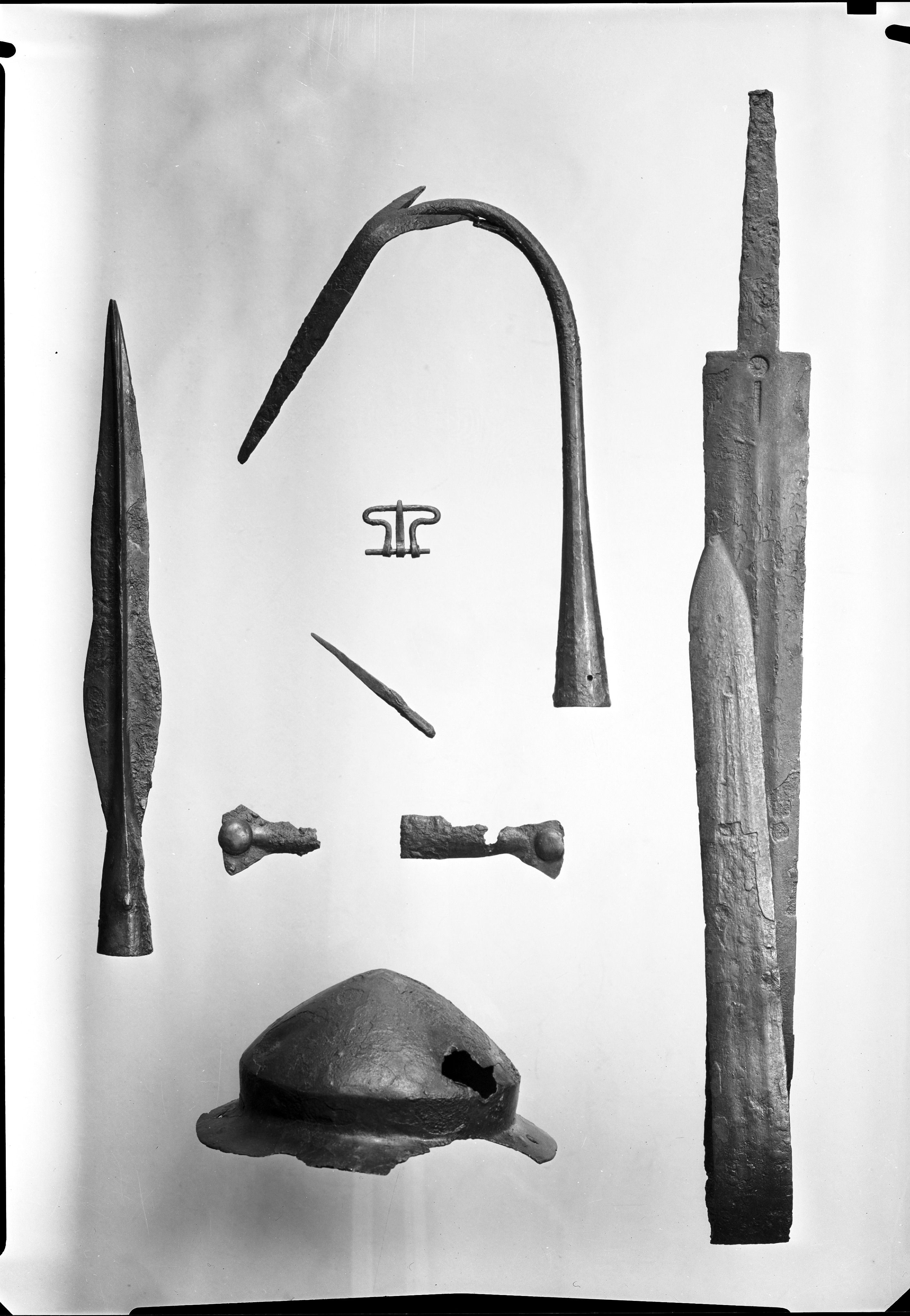 Finds from a grave mound at Einang in Oppland County, Norway